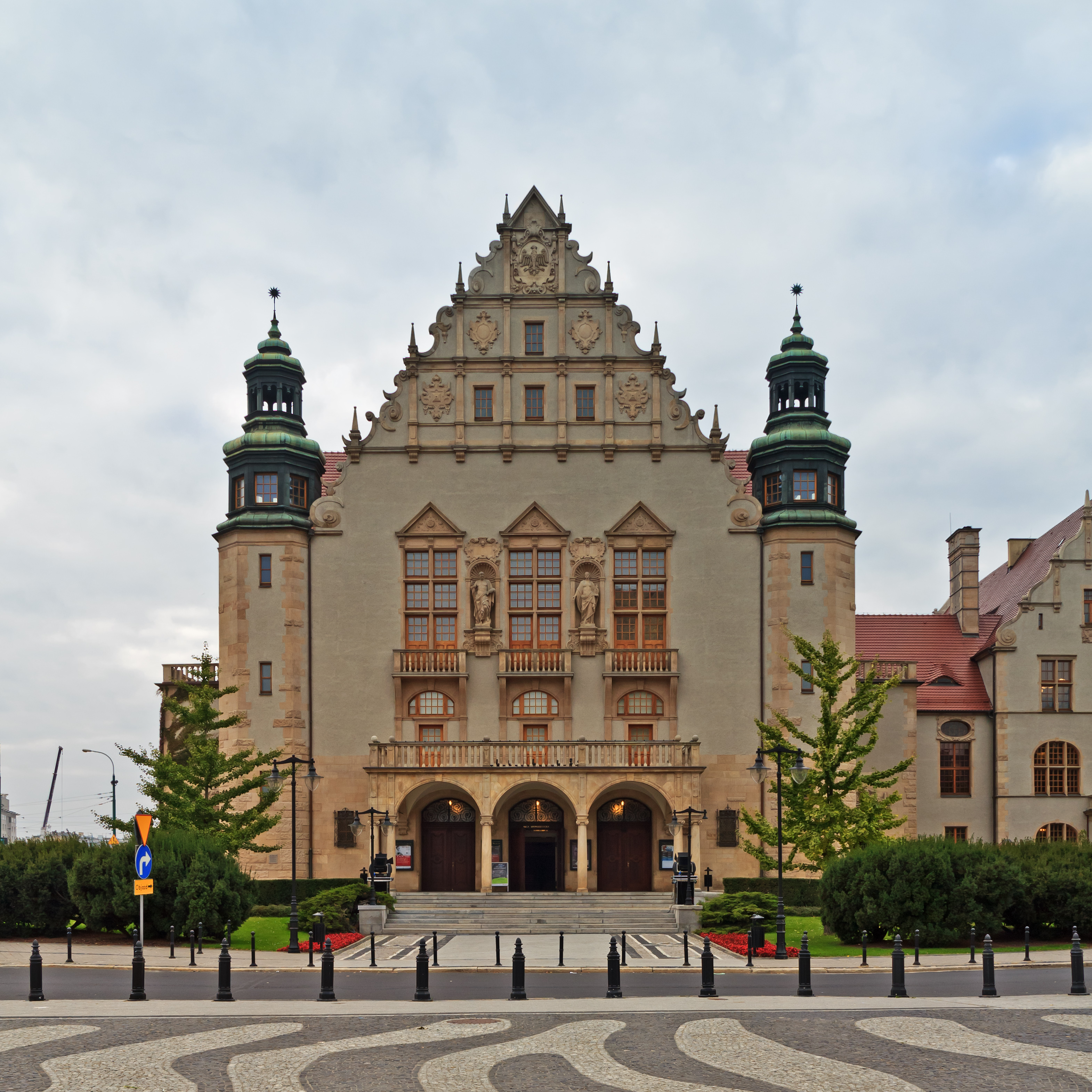 University building «Collegium Minus» in Poznań, Greater Poland